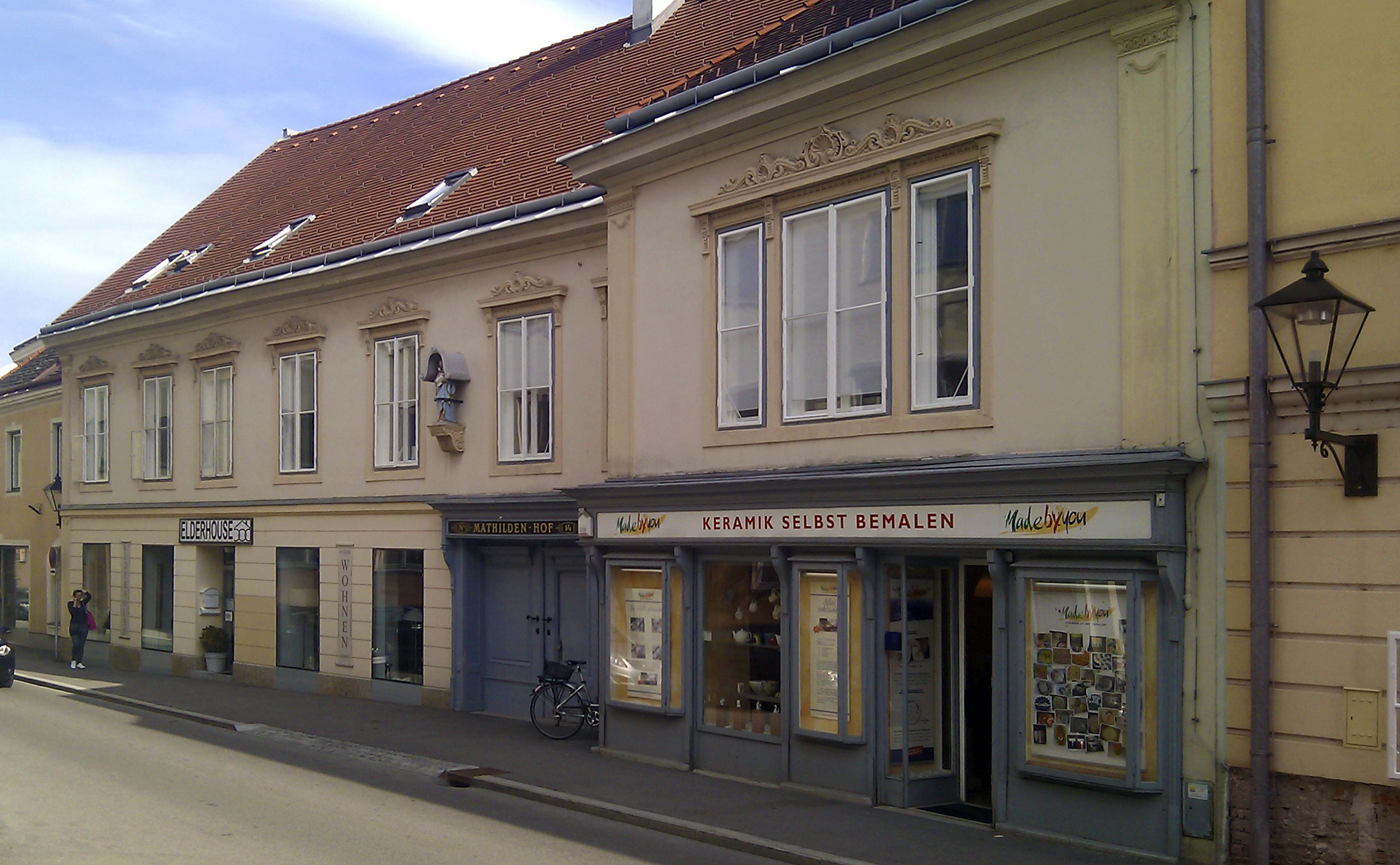 Mathildenhof Baden, Antonsgasse 14